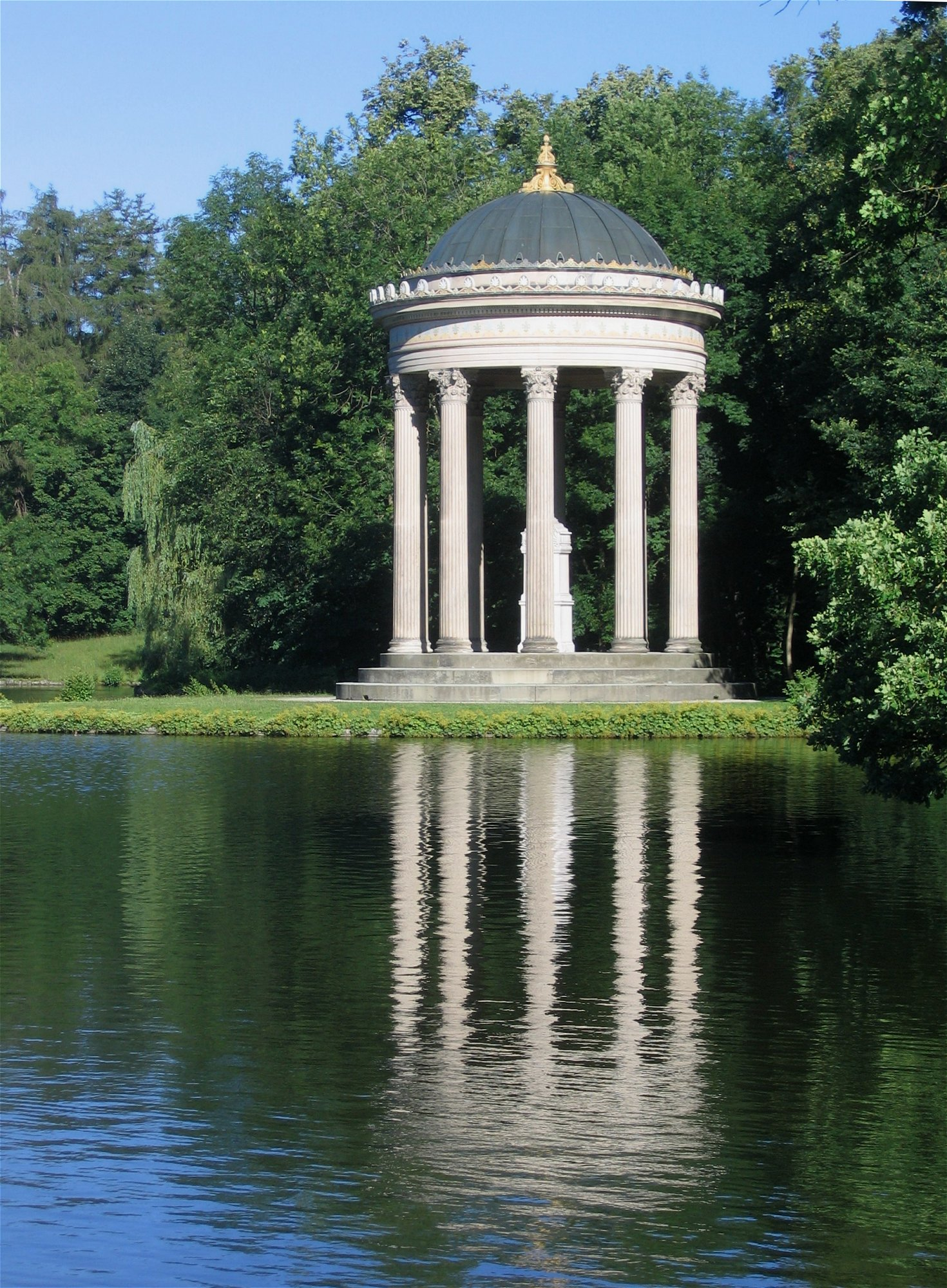 The temple pavilion in the garden park of the Nymphenburg Palace, Munich, Germany